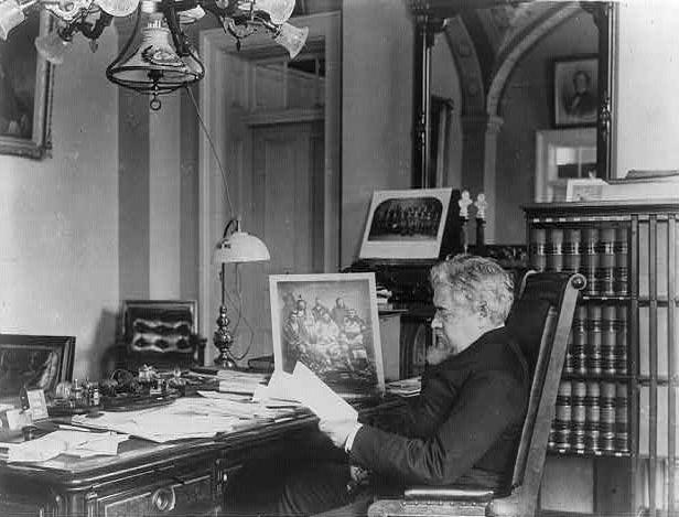 John Willock Noble, United States Secretary of the Interior.